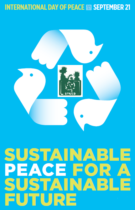 On the International Day of Peace, SFWCD supports the United Nations calls for a complete cessation of hostilities around the world. We also ask people everywhere to observe a minute of silence, at noon local time, to honour the victims – those who have lost their lives, and those who survived but must now cope with trauma and pain. The theme of this year's observance is "Sustainable Peace for a Sustainable Future". Armed conflicts attack the very pillars of sustainable development. Natural resources must be used for the benefit of society, not to finance wars. Children should be in school, not recruited into armies. National budgets should focus on building human capacity, not deadly weapons. On the International Day of Peace, I call on combatants around the world to find peaceful solutions to their conflicts. Let us all work together for a safe, just and prosperous future for all.